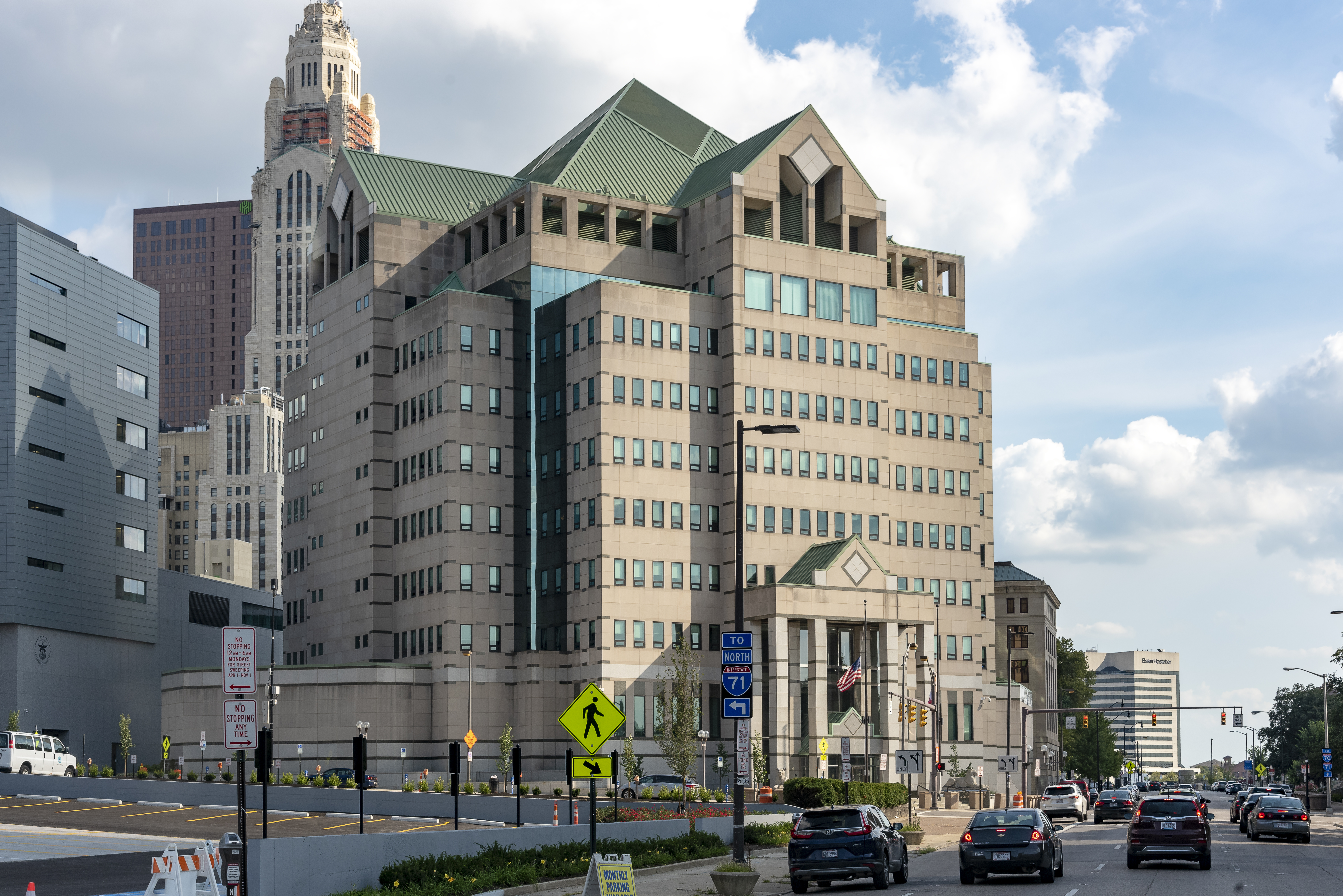 The headquarters for the Columbus Division of Police viewed from the north. The flag is at half staff in honor of John McCain.